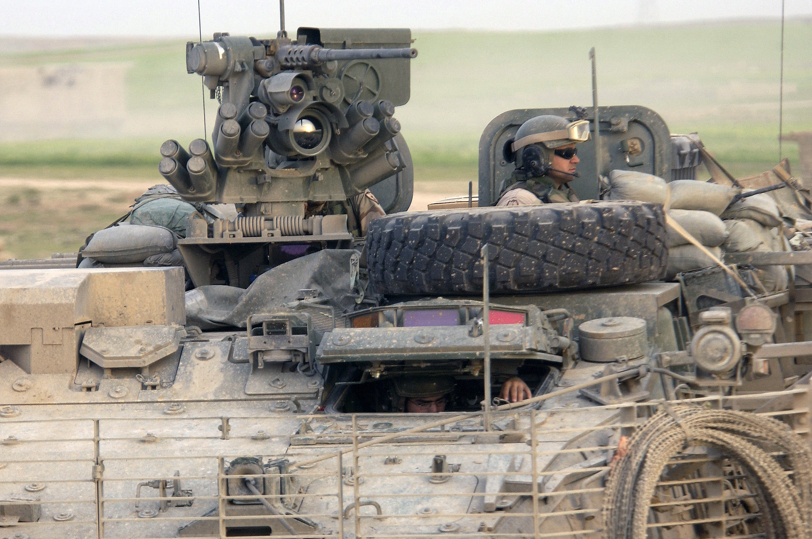 US Army (USA) Soldiers from 2nd Platoon (PLT), Bravo (B) Company (CO), 1st Battalion (BN), 5th Infantry (INF), 25th Infantry Division (ID) (STRYKER Brigade Combat Team (SBCT)), scans the horizon for threats from a USA M1126 STRYKER Infantry Carrier Vehicle (ICV), with Slat Armor cage, while on patrol near Mosul, Iraq. The SBCT is assigned to Task Force Freedom supporting Operation IRAQI FREEDOM. Location: MOSUL, DAHUK IRAQ (IRQ)